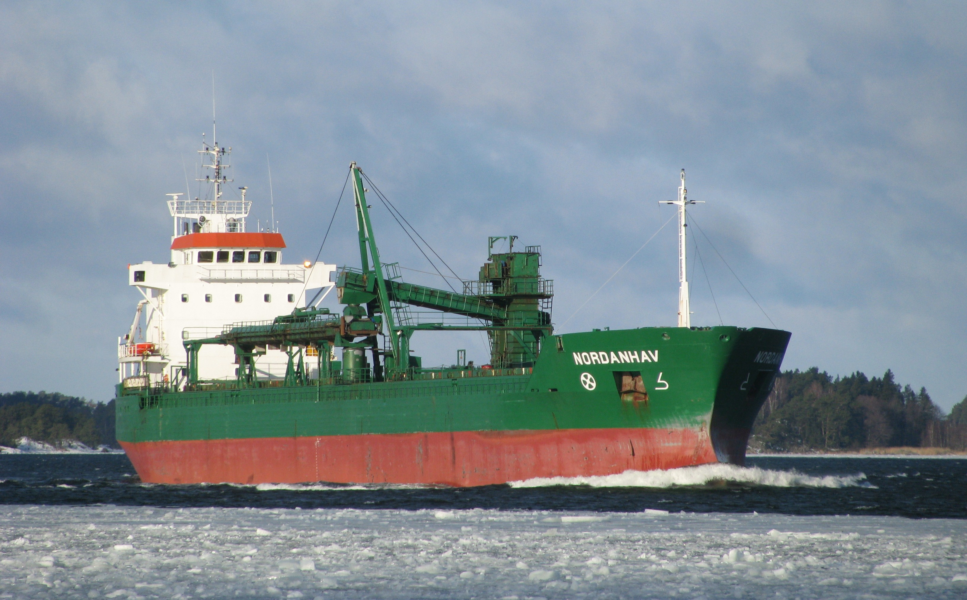 Nordanhav in the fairway north of Boda dock.